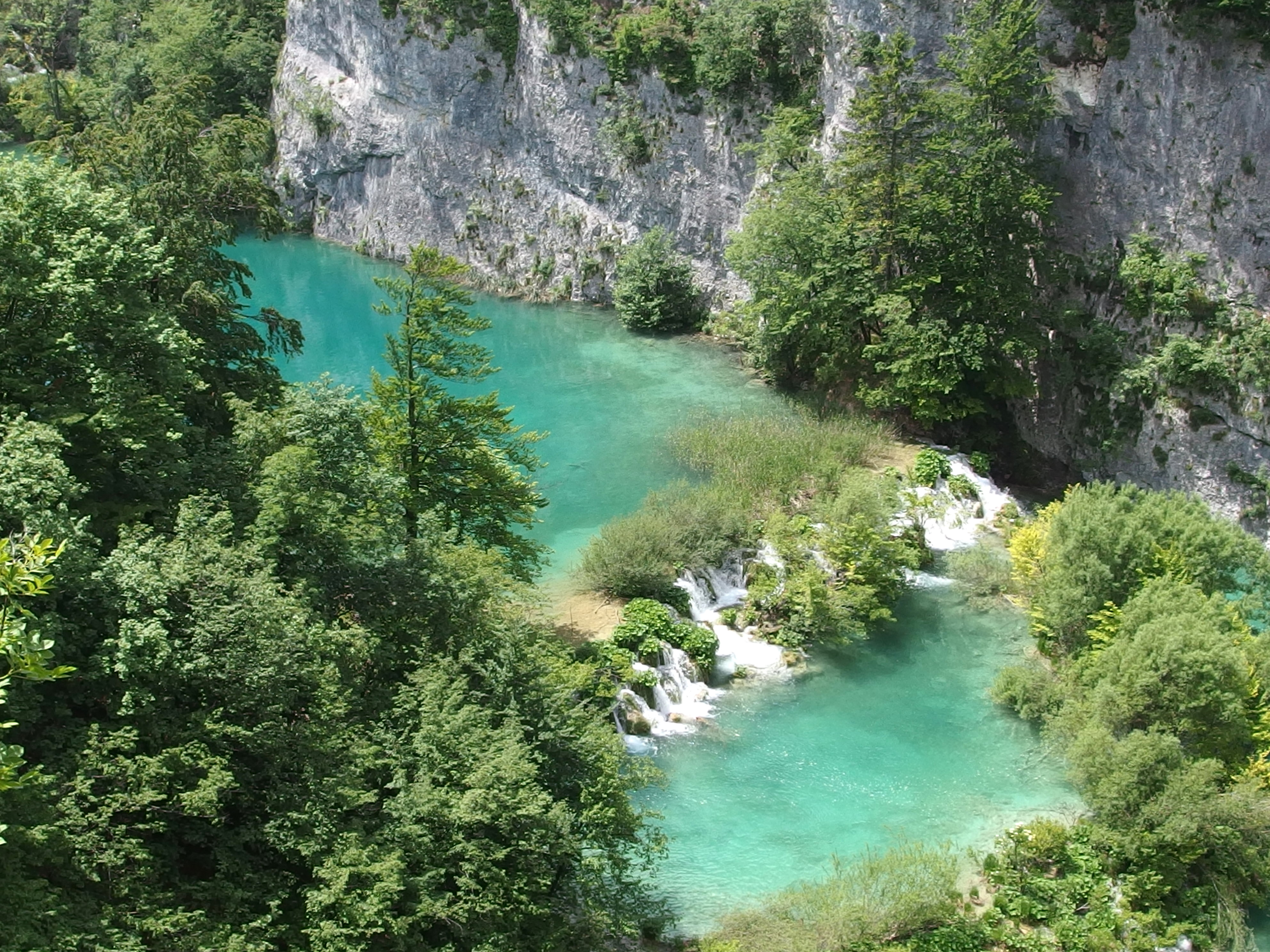 2013-06-08 in Plitvice Lakes National Park.